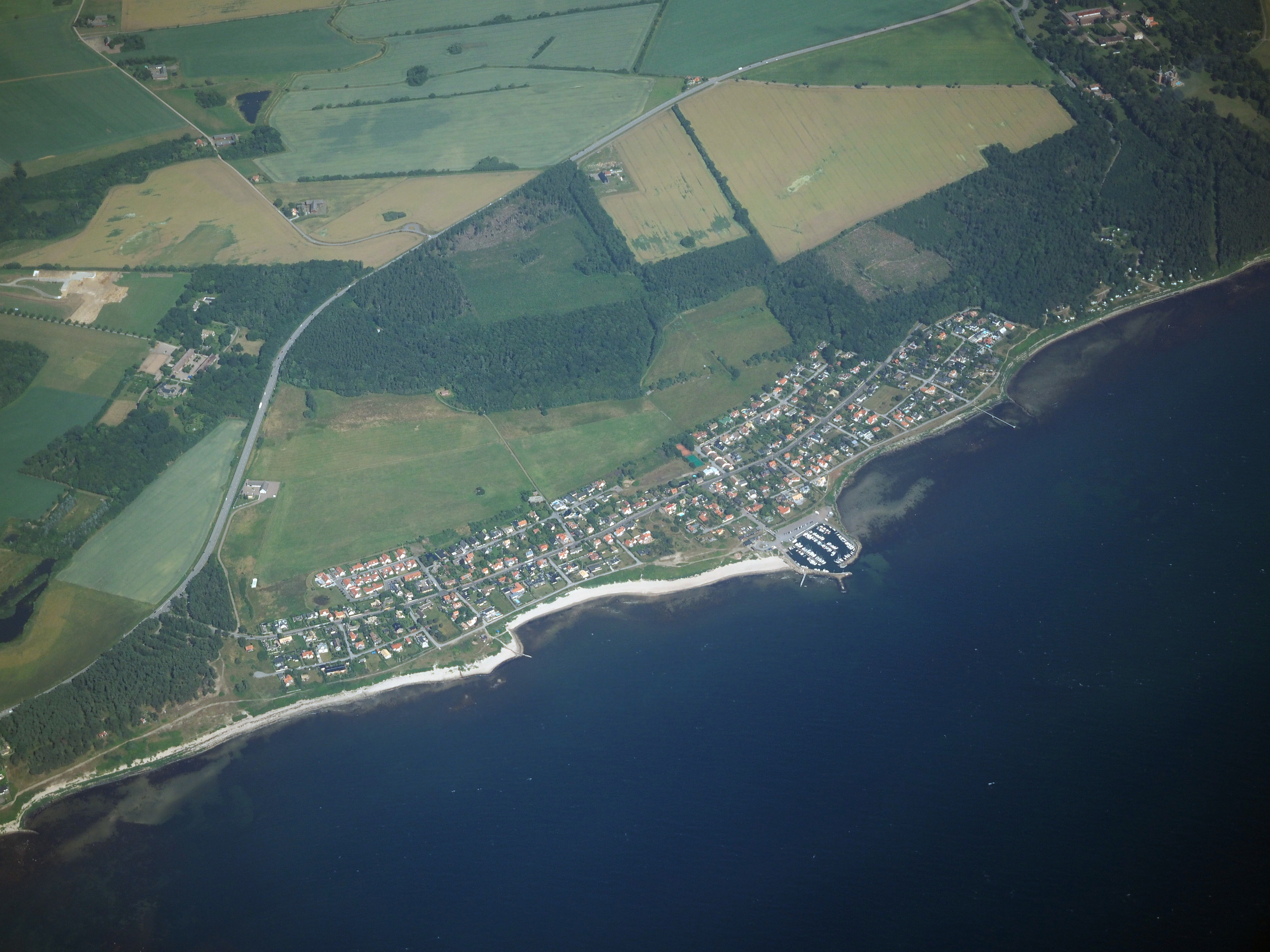 Domsten, Skåne, viewed from an airplane flying from Stockholm to Copenhagen.